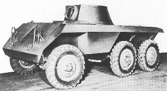 Armored Car T23 first pilot